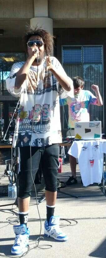 Rapper Danny Brown performing at UC Berkeley in 2012